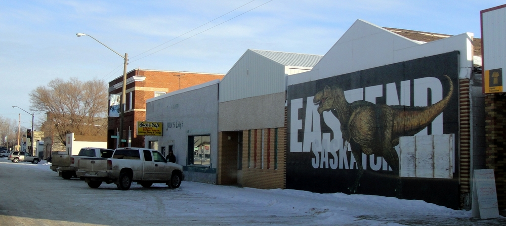 Storefronts in Eastend, Saskatchewan, Canada